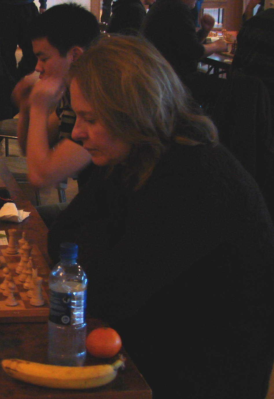 WGM Niina Koskela (Finland), Rilton Cup Stockholm 2009/10